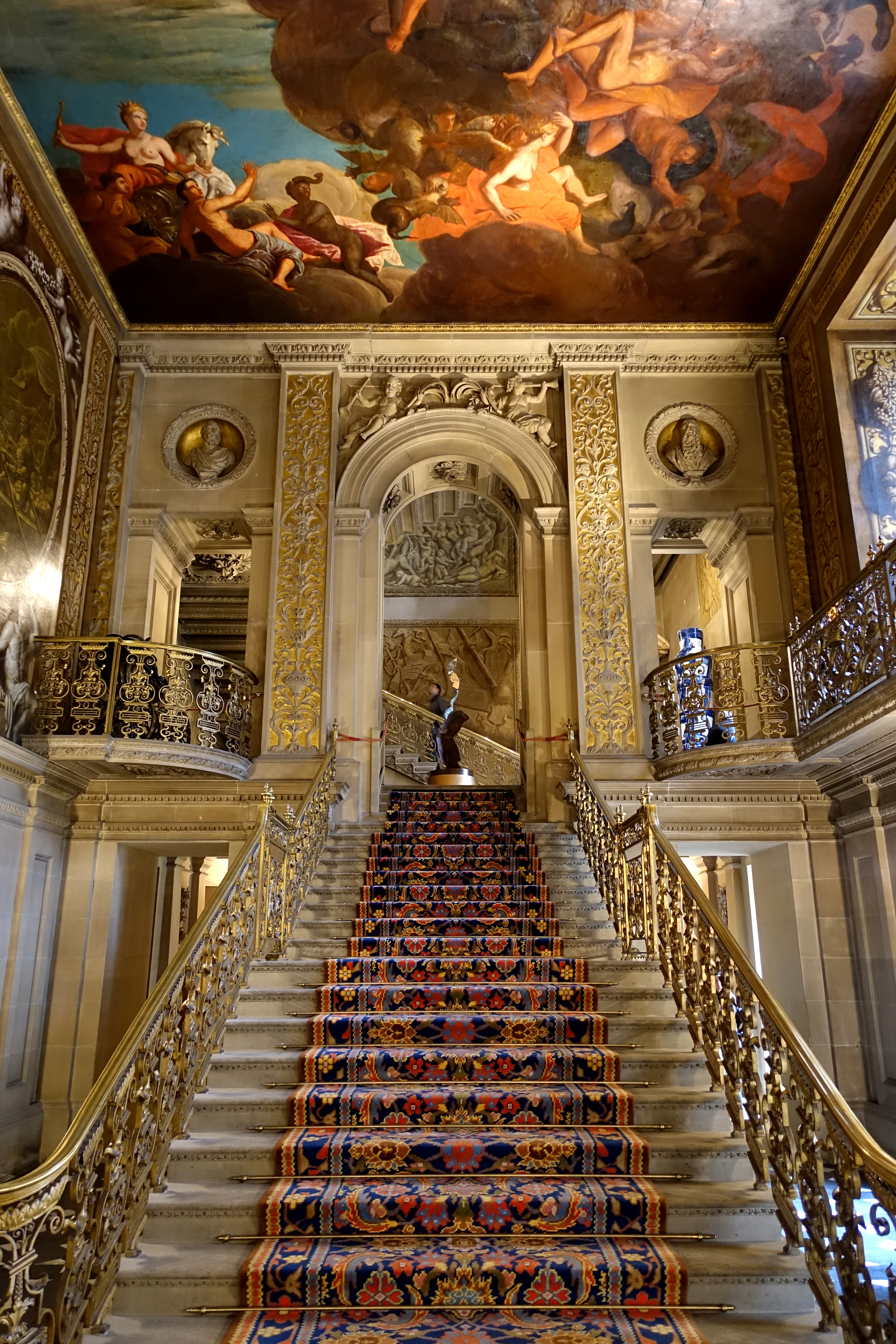 Entrance Hall, Chatsworth House - Derbyshire, England.